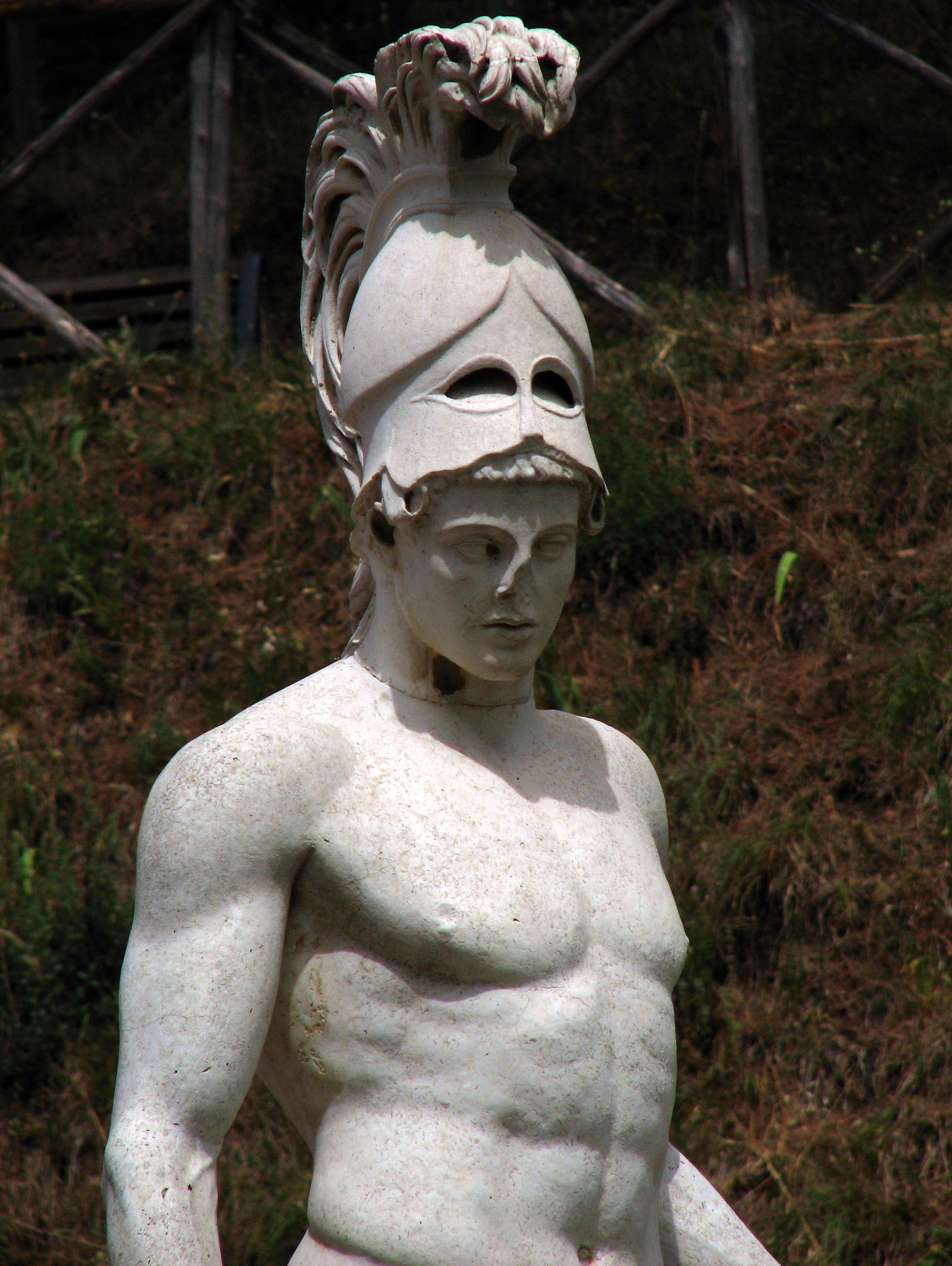 Helmeted young warrior, so-called Ares. Roman copy from a Greek original—this is a plaster replica, the original is now stored in the Museum of the Villa. Canope at the Villa Adriana in Tivoli.